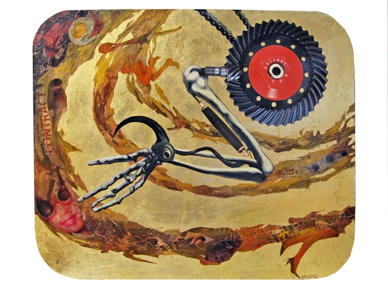 Artwork by Mall Nukke, "Deus Ex Machina I", collage, acrylic, gilding (2012) (2012)